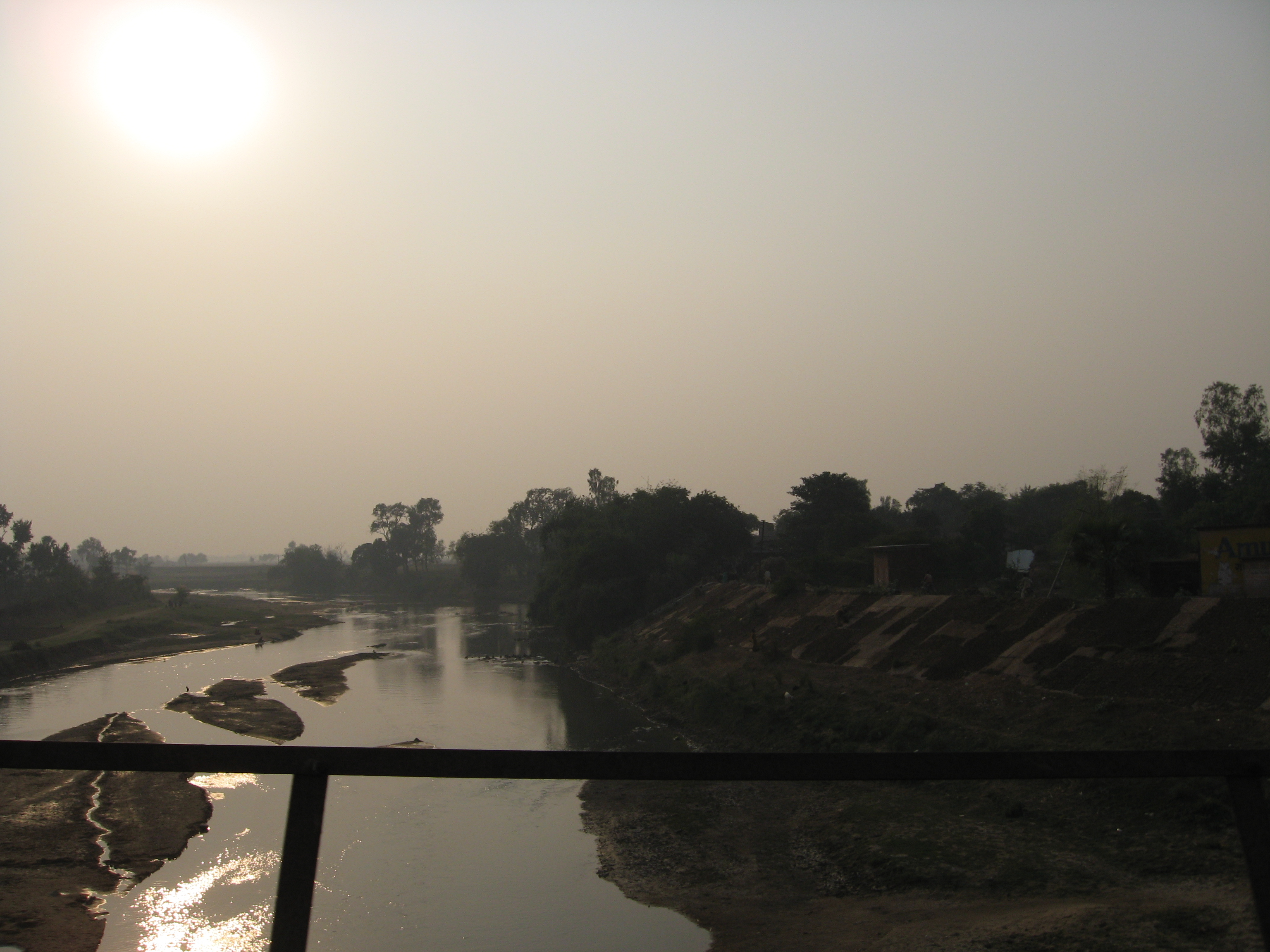 Holy Punpun River.